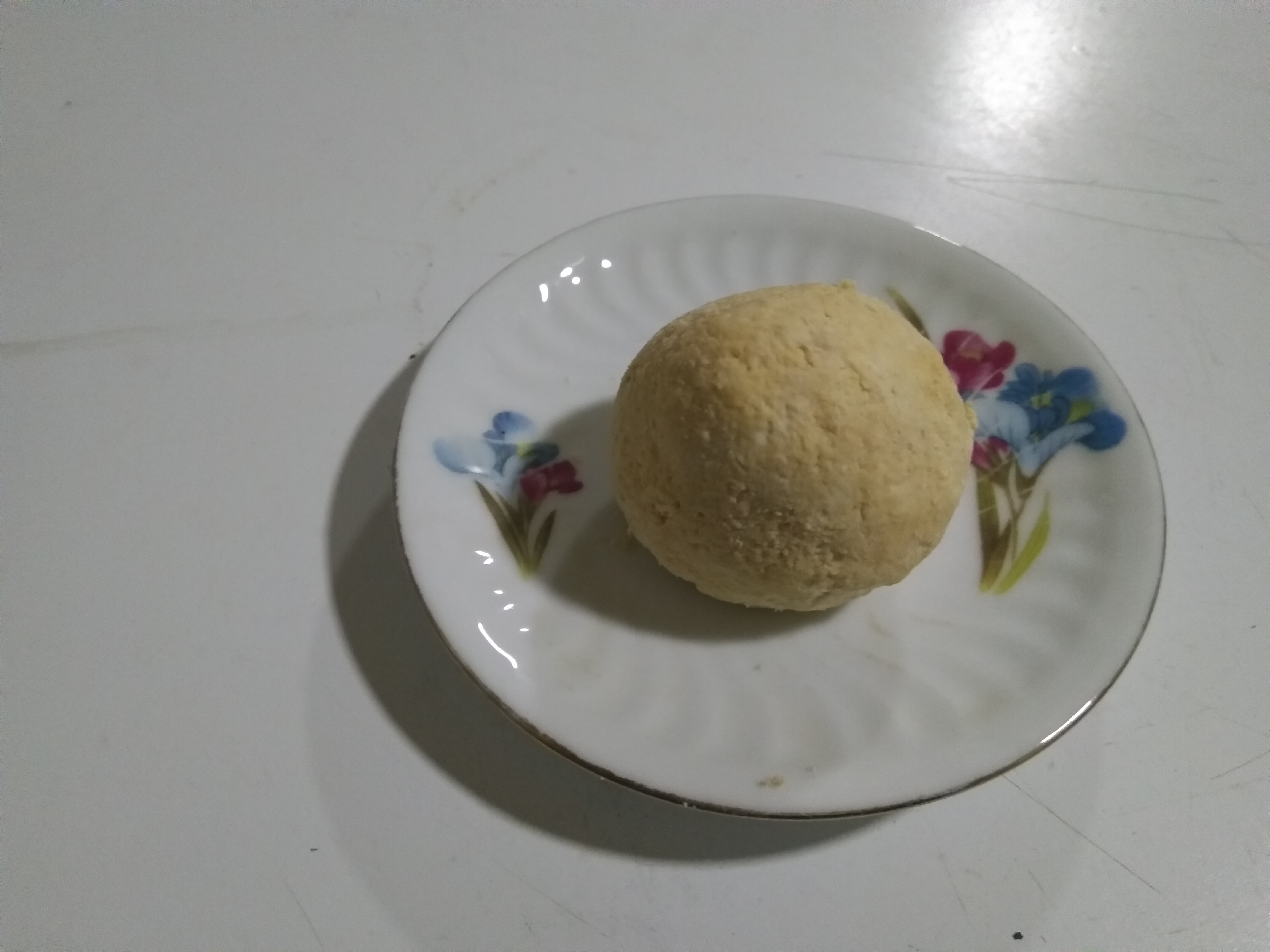 Eqt... Food made from dried yoghurt. It is available in Saudi Arabia, Iraq and Jordan.